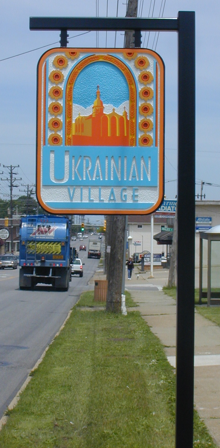 Sign of Ukrainian Village in Parma, Ohio, United States.